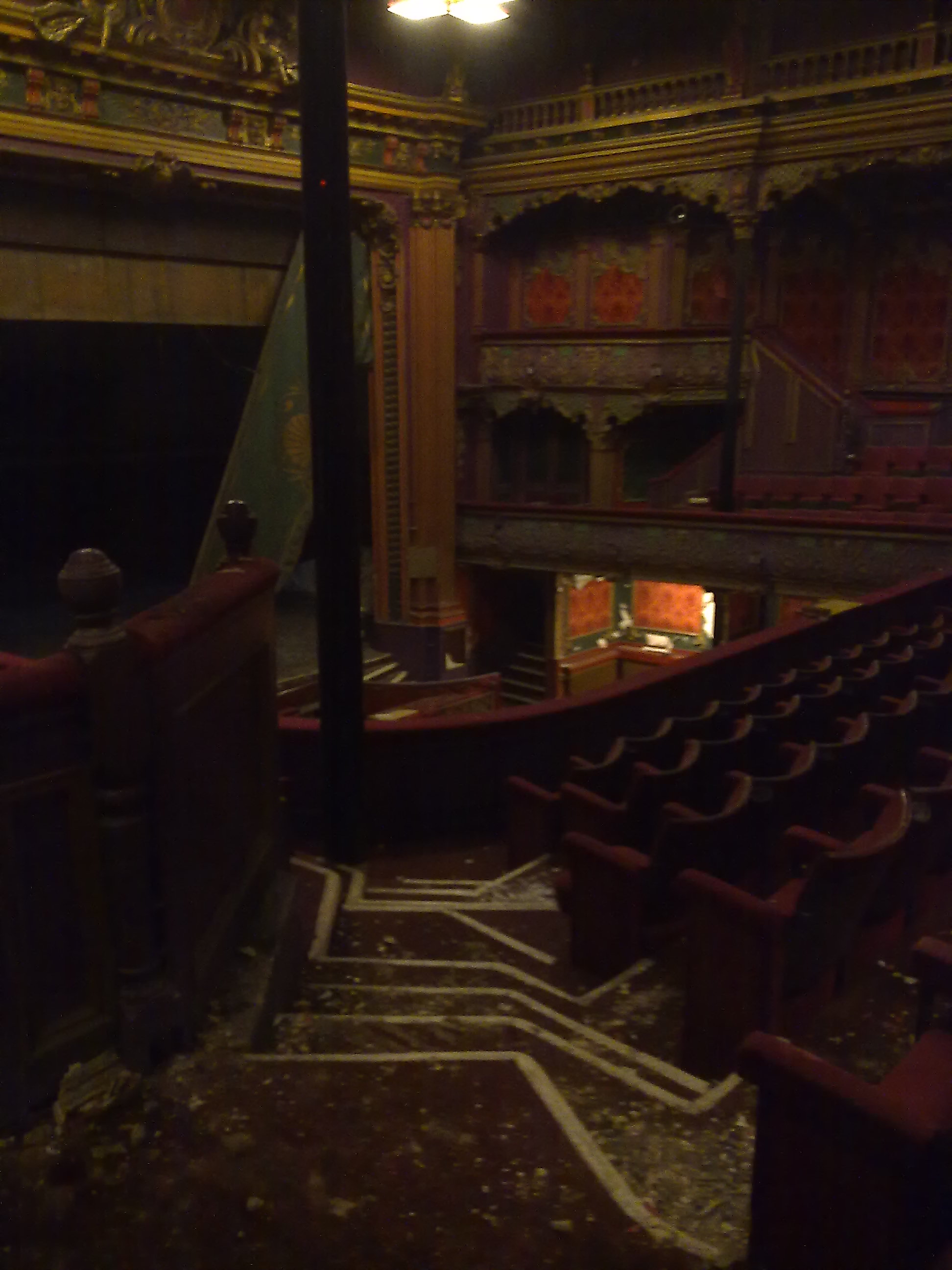 Shot diagonally across the theatre, showing both the pigeon damage, and some of the theatre's faded glory